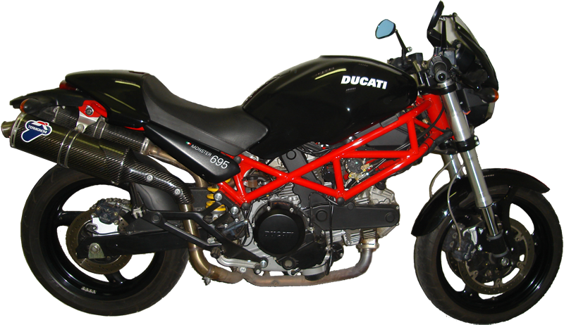 Ducati Monster 695 with Ducati Performance kits and other accessories minors